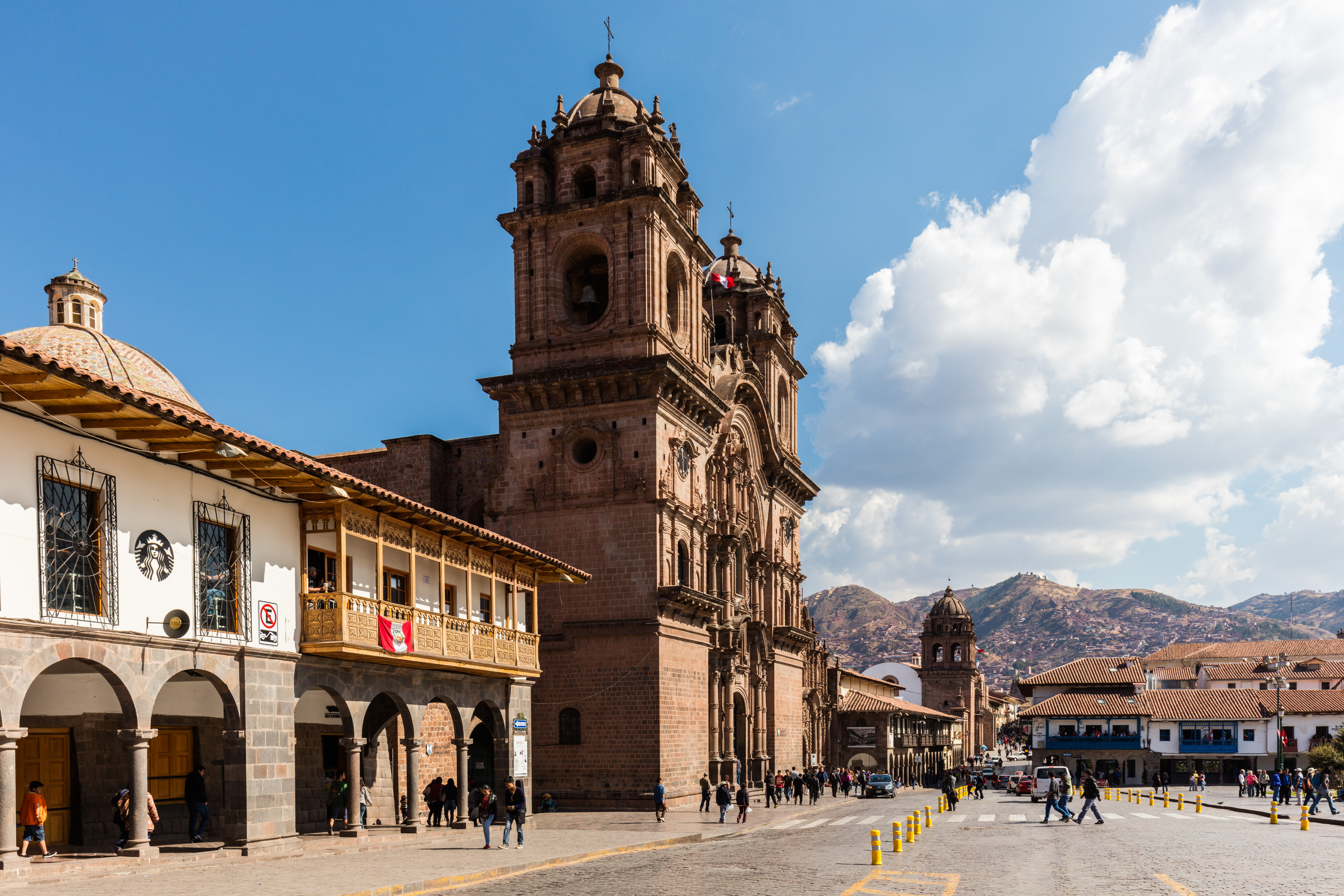 Society of Jesus church, Plaza de Armas, Cusco, Peru